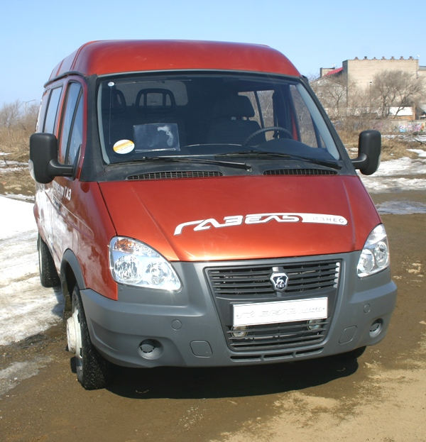 GAZ-2705-288 "GAZelle Business", 2010 MY